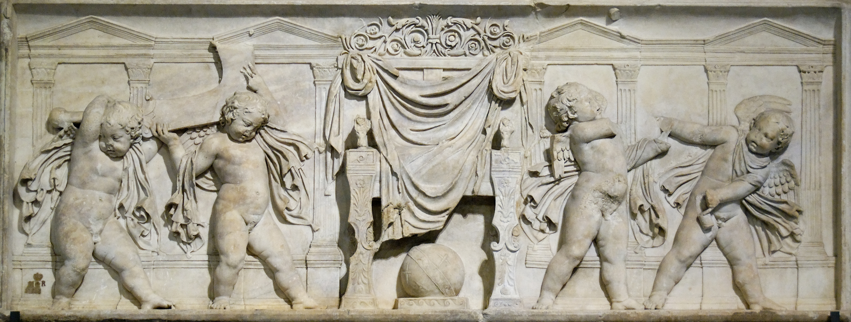 Relief, so-called "Throne of Saturn". Marble, 1st century AD or 16th copy. From Venice, Italy.